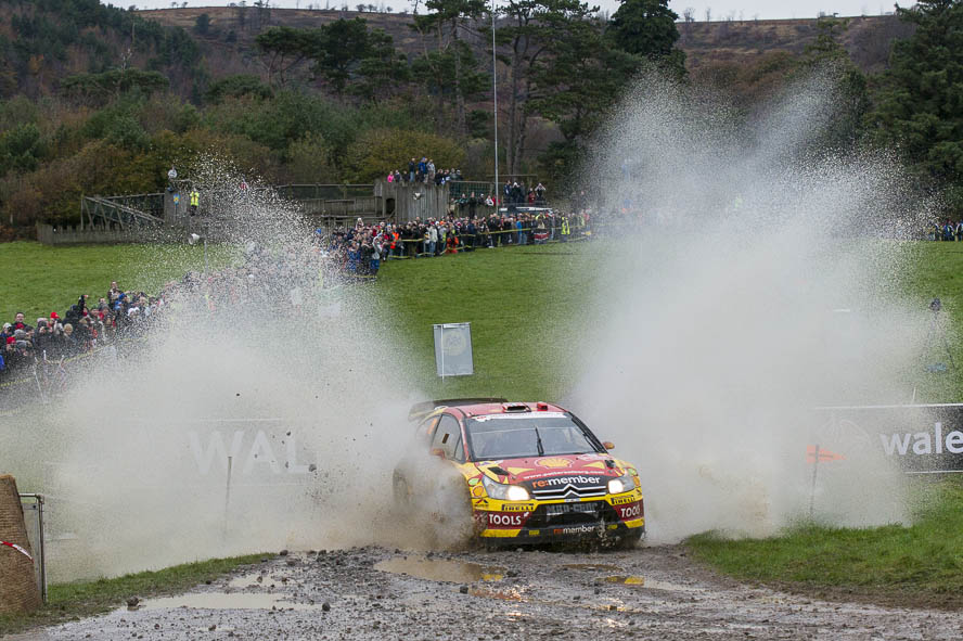 Wales Rally GB 2010 Chris Patterson,Citroen C4 WRC,GBR,Großbritannien,Margam,Margam Community,Margam Park,Petter Solberg,Petter Solberg World Rally Team,Rally,Rallye,WRC,Wales